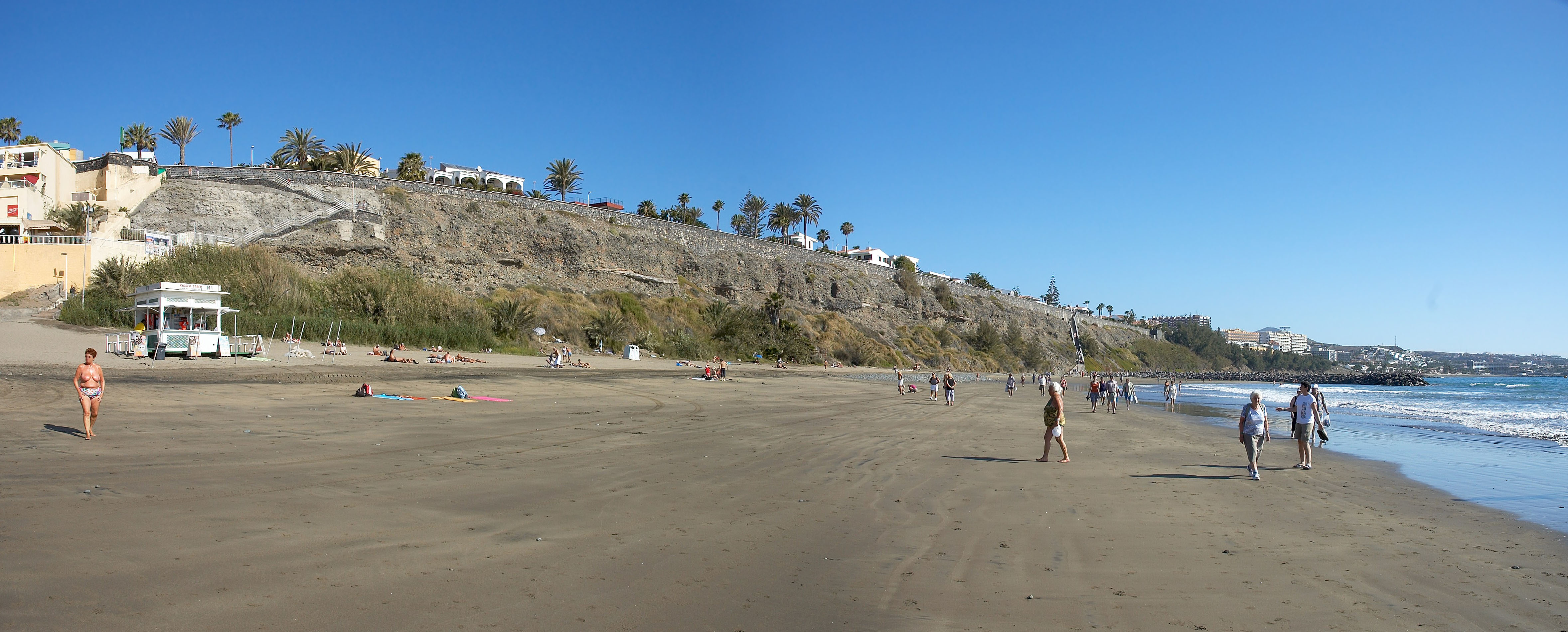 Gran Canaria, Playa del Inglés beach, looking direction North.